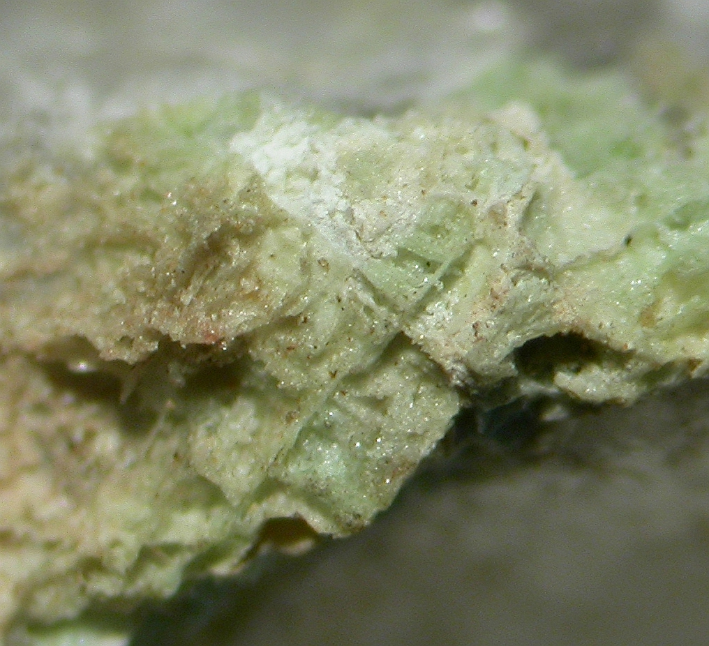 Zaïrite Locality: Eta-Etu, Kivu, Democratic Republic of Congo (Zaïre) Field of view 4 mm. Specimen and photo Leon Hupperichs.